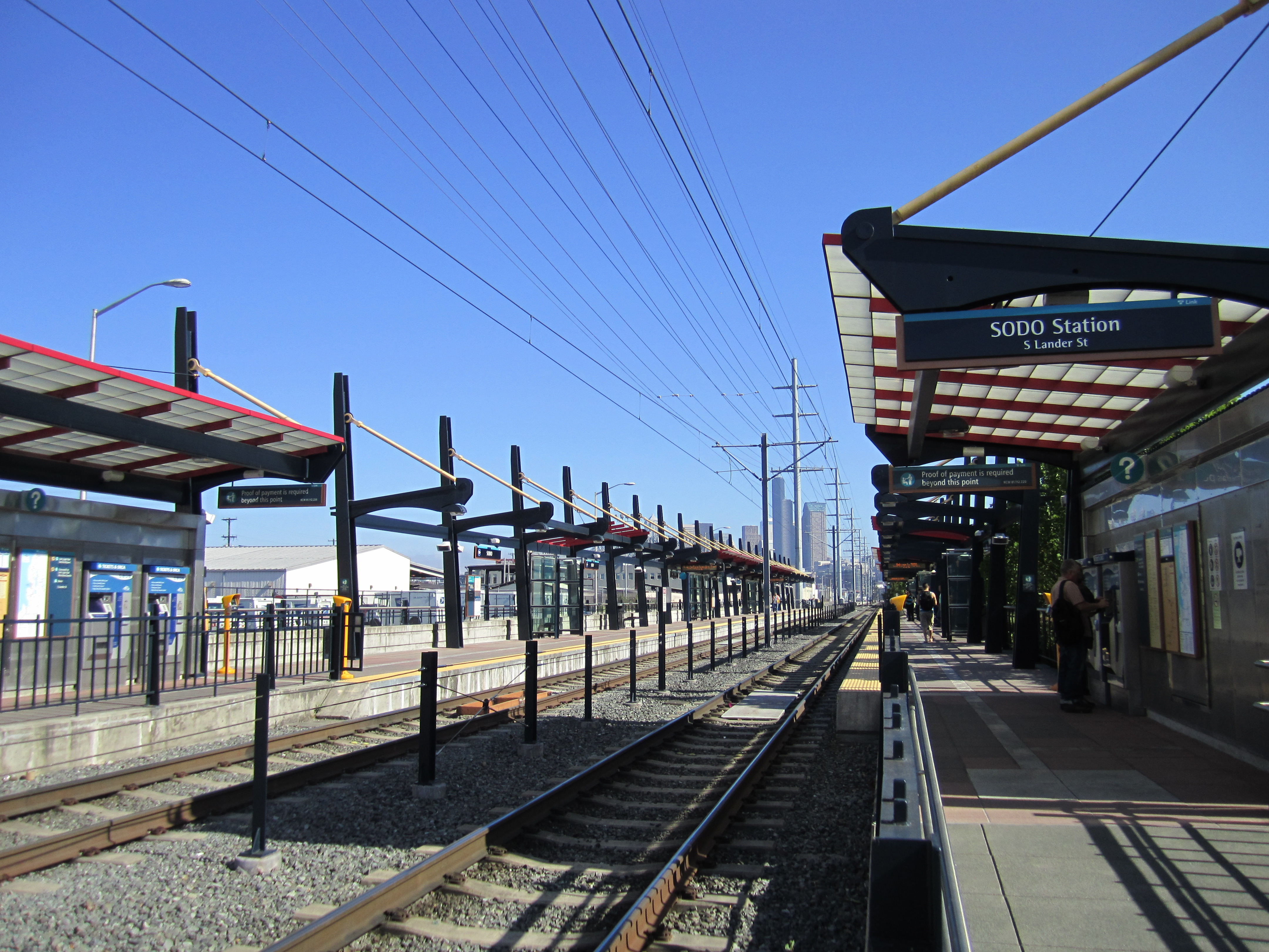 The eastern (northbound) platform at SODO Station in Seattle. The skyline of Downtown Seattle can be seen in the background.